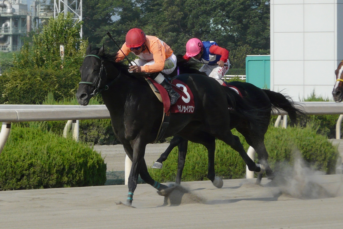 Tagano-cyclone20110815